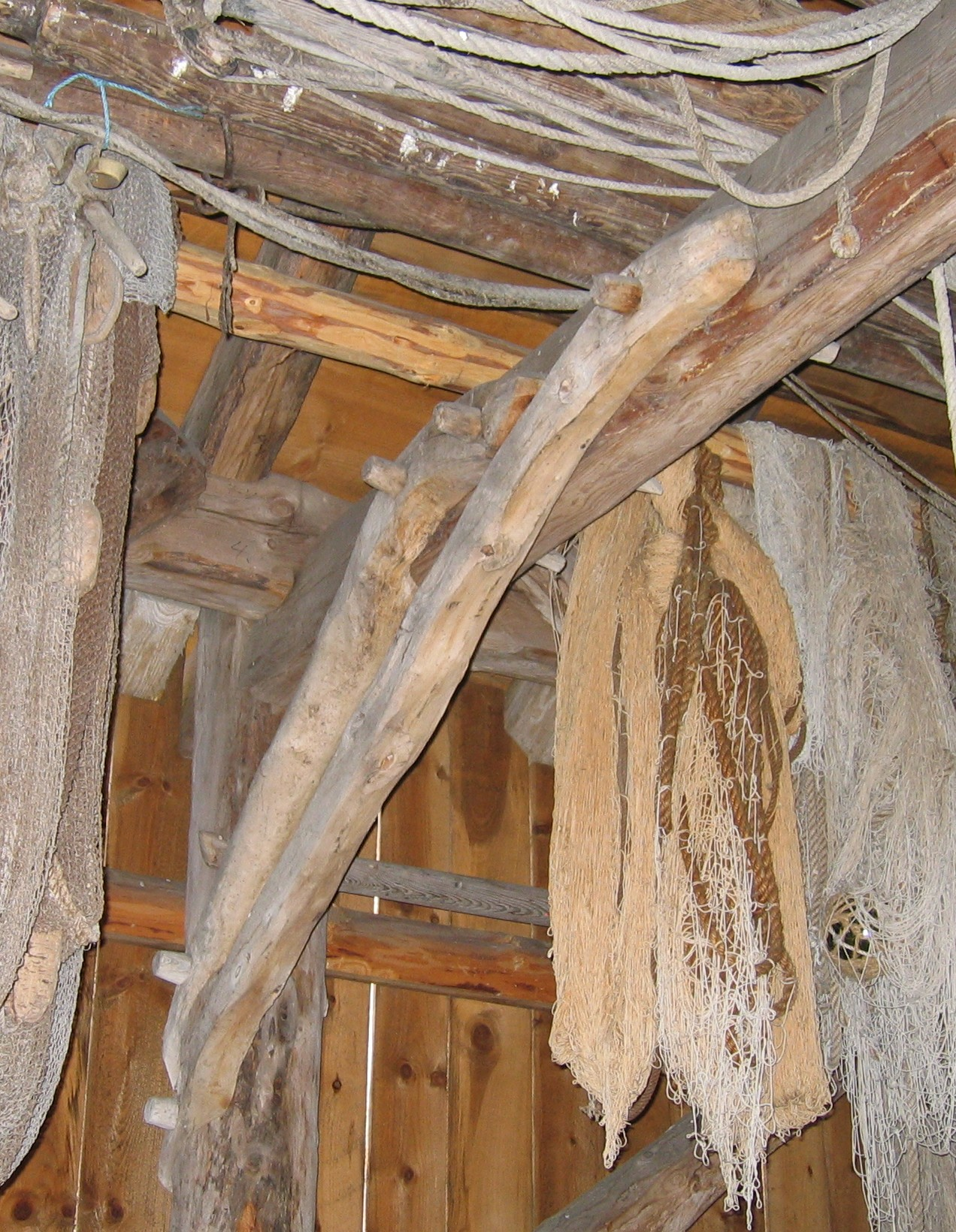 Inside an old Norwegian boathouse. The wooden beams are kept together by treenails.